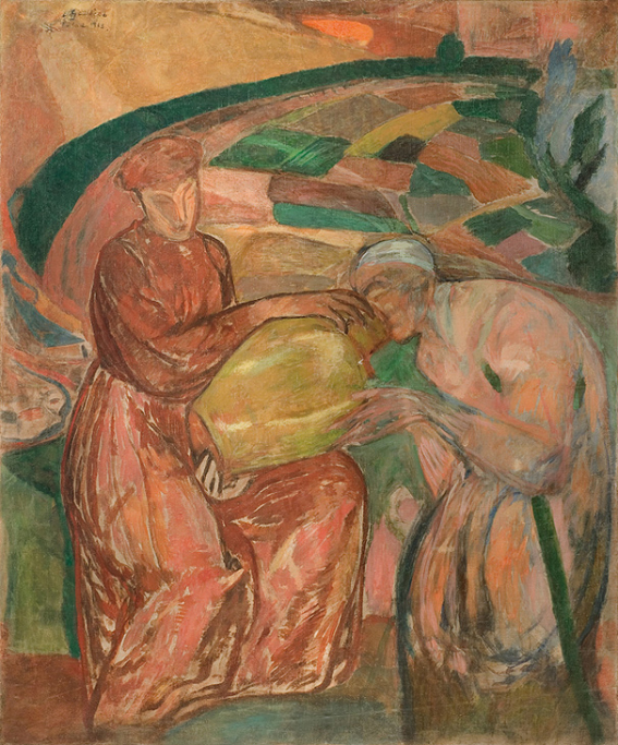 Charity